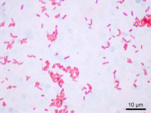 microscopic image of Escherichia coli (ATCC 11775). Gram staining, magnification:1,000.